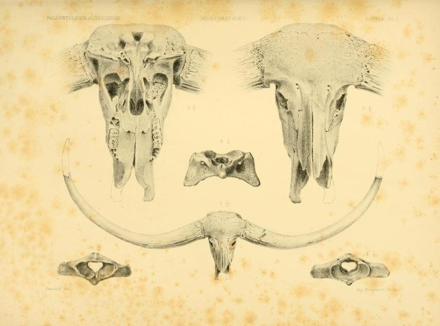 Pelorovis antiquus, lithograph of skull by Ferrand del Imprimeur de Becquet, Paris, in book Bubalus antiquus (1893), plate I, part of series Carte de Géologie de l’Algérie - Paléontologie Monographies de Vertébrés